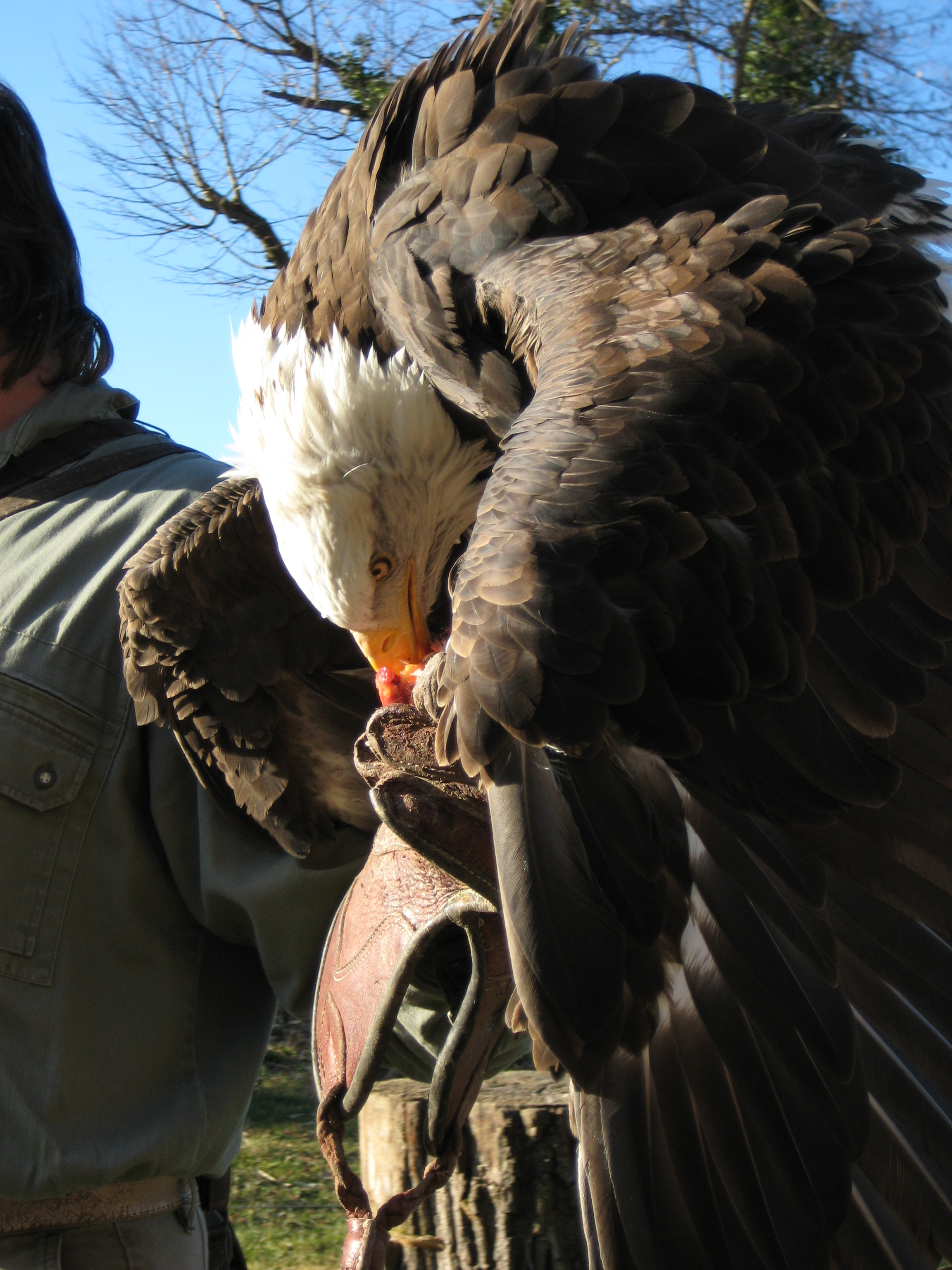 Bald Eagle